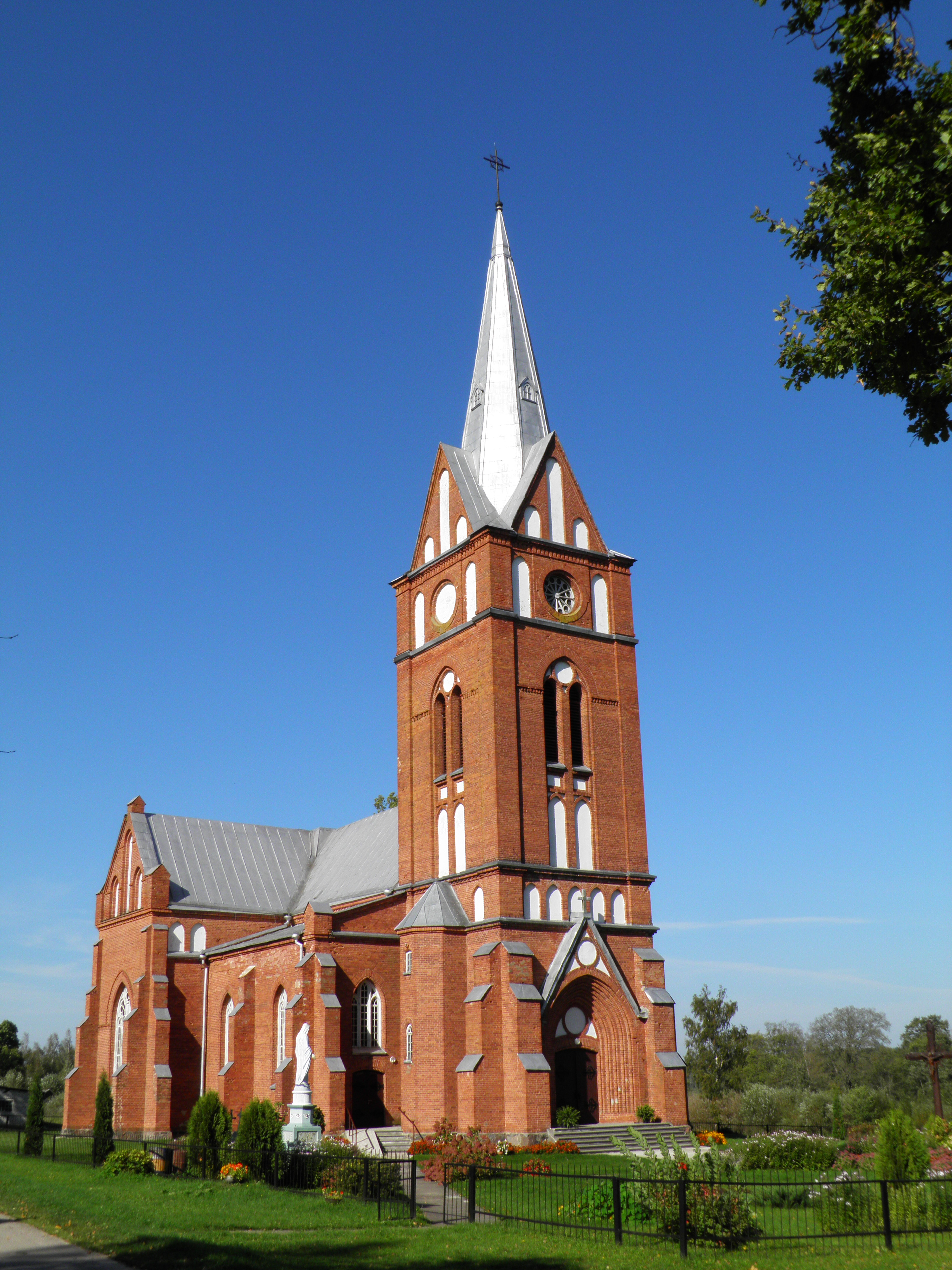 church